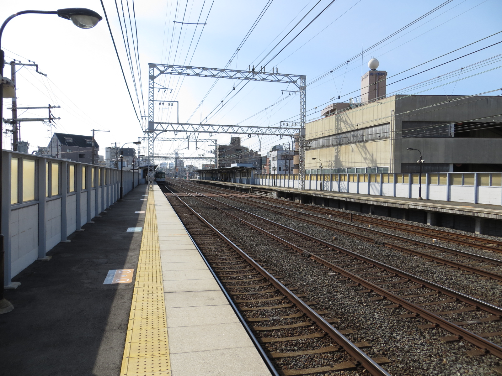 Railway platform from Takii Station.